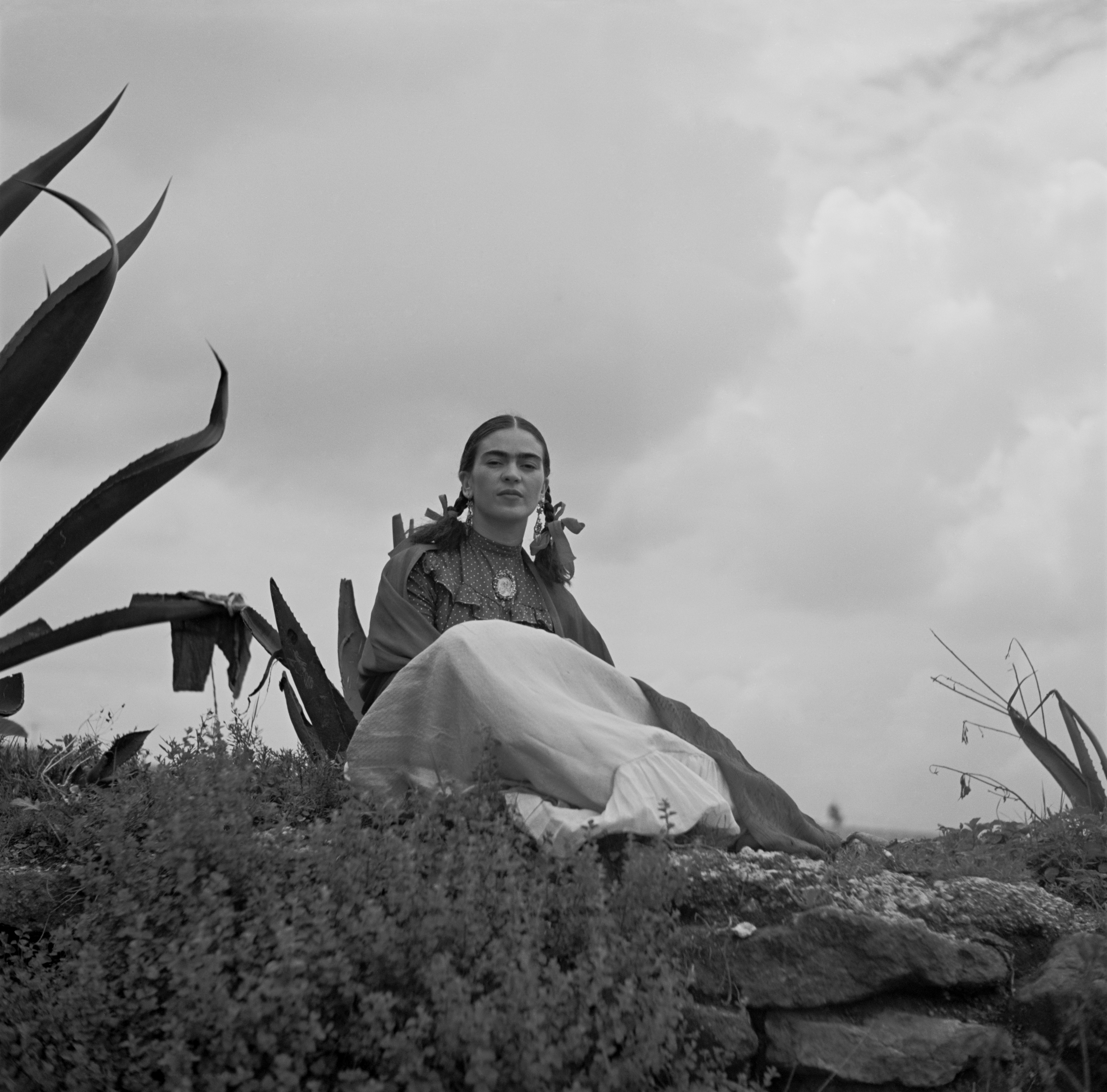 Frida Kahlo, seated next to an agave plant, from a 1937 photo shoot for Vogue entitled "Señoras of Mexico". This is a retouched picture, which means that it has been digitally altered from its original version. Modifications: Long scratches, dust spots, and other such areas of small damage removed, some water damage at top edited out, general fixes, cropped to photograph, and a subtle exposure tweak (it was just a little bit on the light side)..